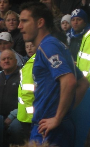 Frank Lampard, a footballer from England.